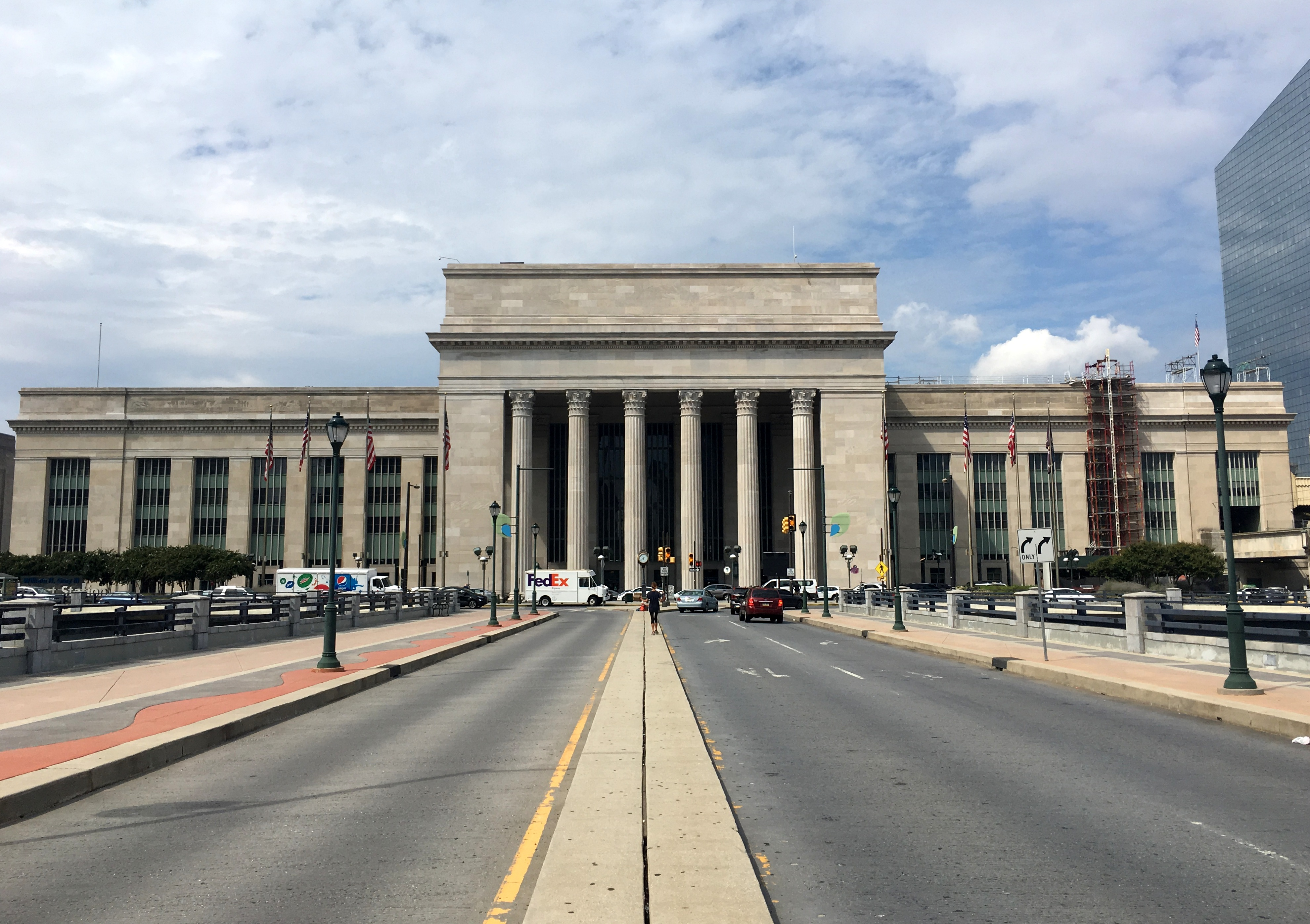 The east entrance of the 30th Street Station serving Amtrak, SEPTA, and NJ Transit trains in Philadelphia, Pennsylvania, viewed from westbound Pennsylvania Route 3 (John F. Kennedy Boulevard)